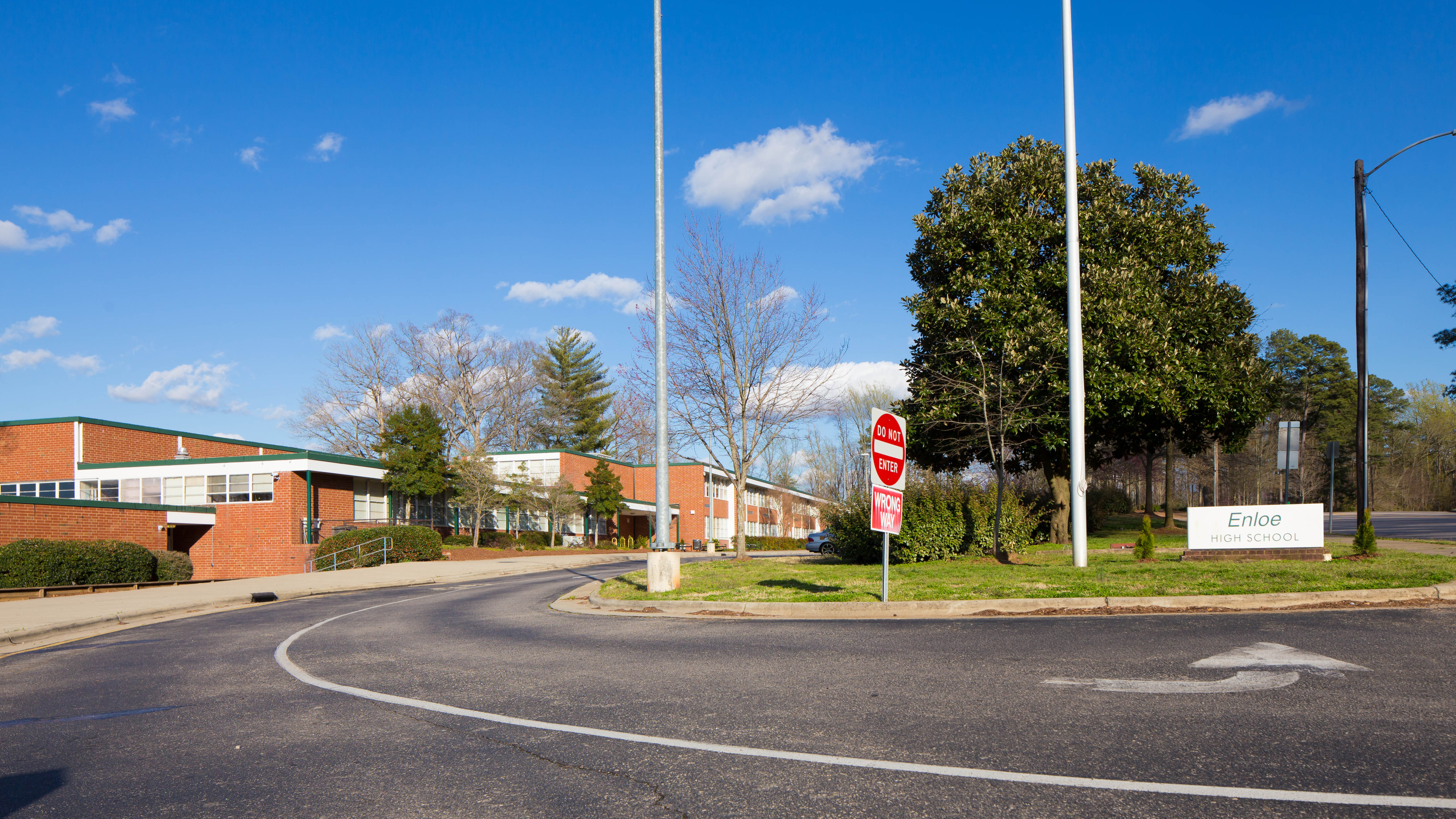 Enloe High School, Raleigh NC 27612. April 5 2013lol lCanon 6D / TS-E 24mm f/3.5L II